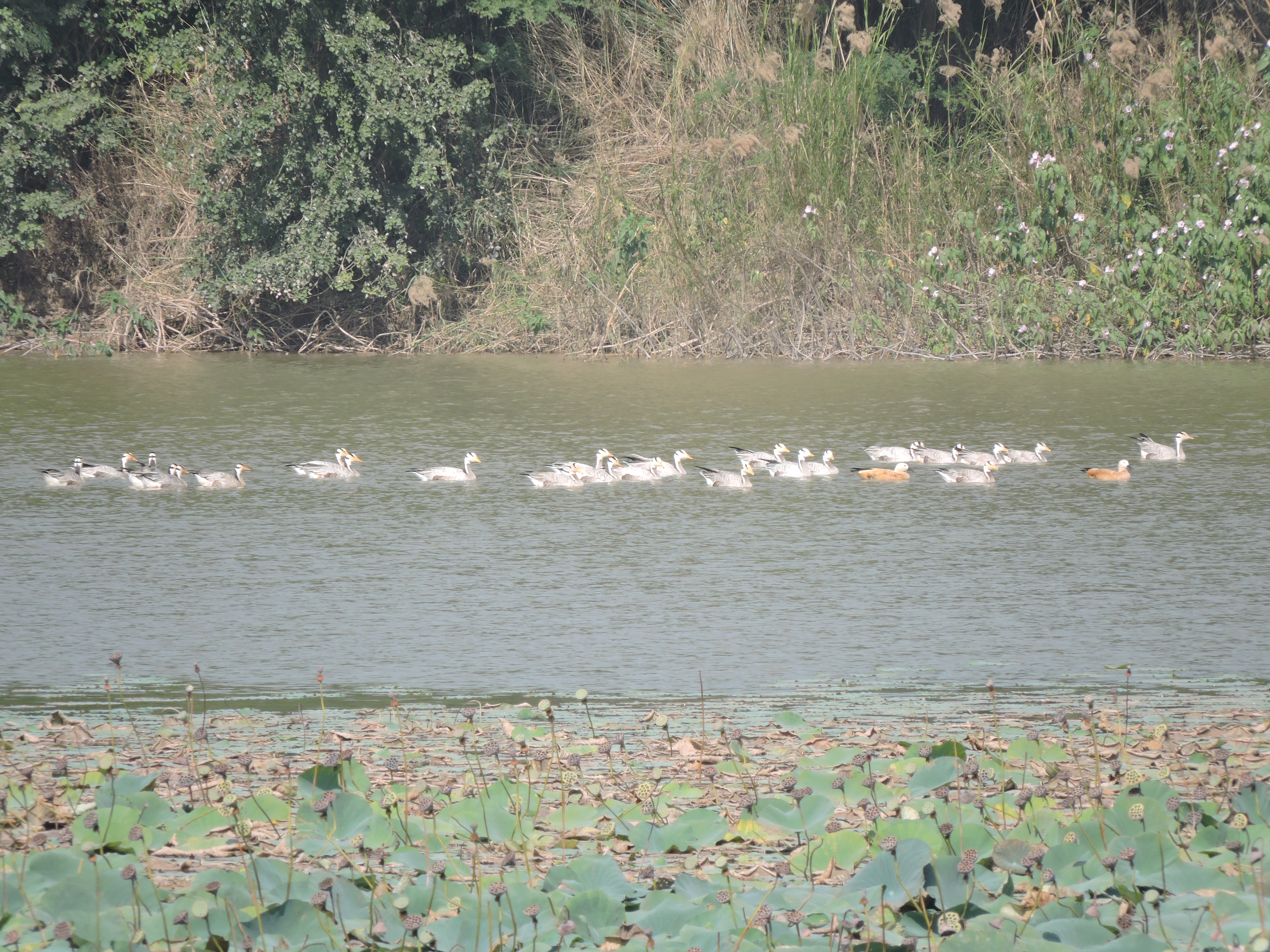 Flock of Bar-headed Geese Anser indicus and two Ruddy Shelducks Tadorna ferruginea at Sukhna Lake, Chandigarh, India